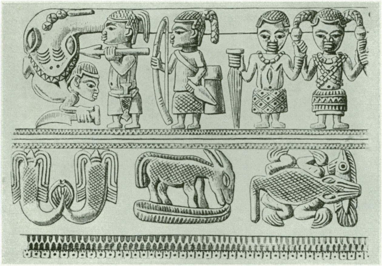 Loop dagger, depicted on a cup from Benin